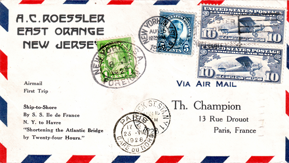 Flown cover carried on the First U.S. to Europe "Catapult" Flight from the French Line passenger steamer "S.S. Ile de France", August 17-23, 1928, thus "Shortening the Atlantic Bridge by Twenty-Four Hours". (AAMC CAT 2) The Cooper Collection of Aerial Postal History